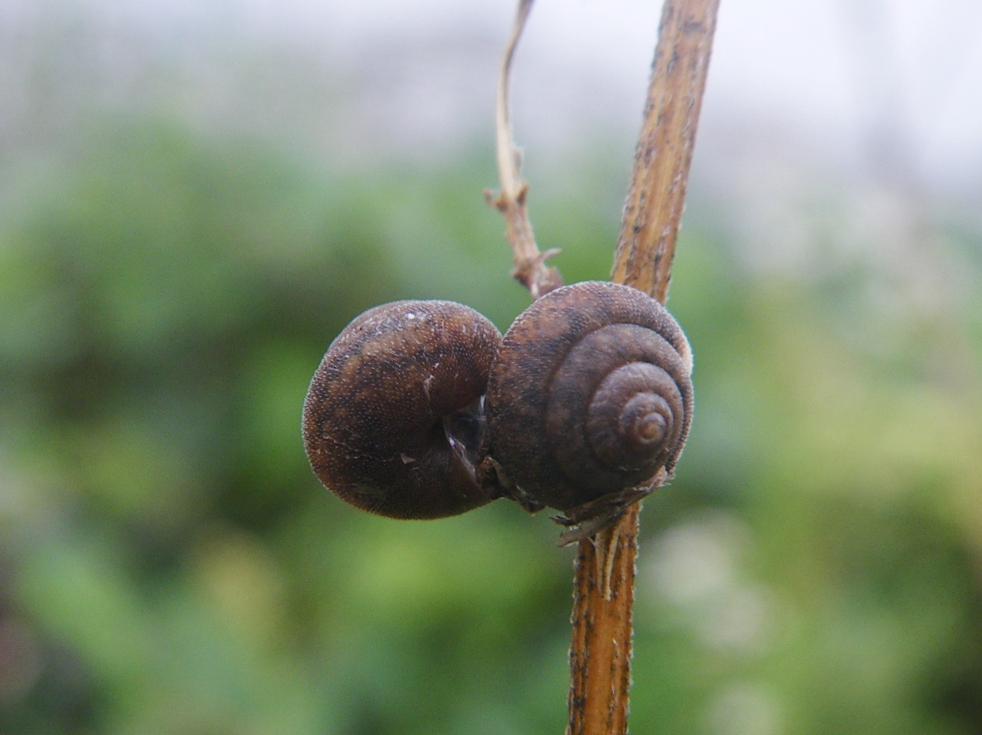 Lepidopisum conospira (Pfeiffer, 1851) (syn. Lepidopisum verrucosum (Reinhardt, 1877), about 6mm in diameter. Two snails resting on a withered plant. Loc. Sagamihara, Honshu, Japan.